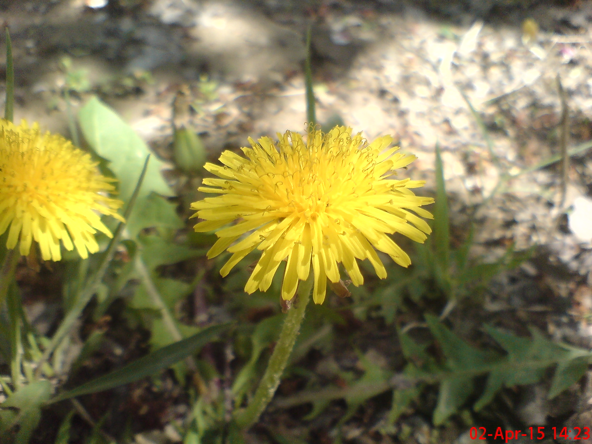 Dandelion Flower, Shahriar, Iran, 2 April 2015.